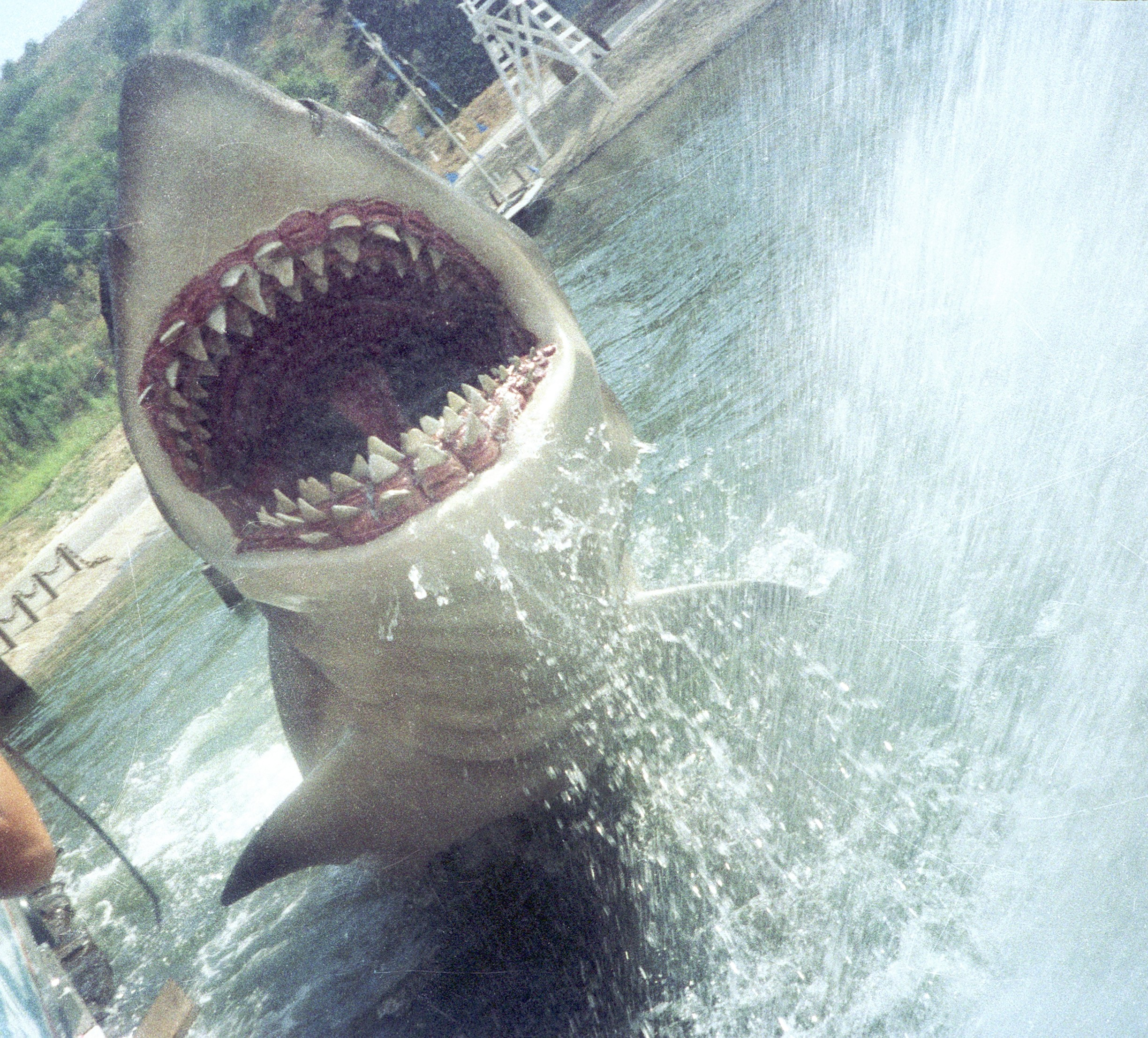 not really aviation related, but I couldn't resist this one Universal Studios, LAX, July 15 1984.